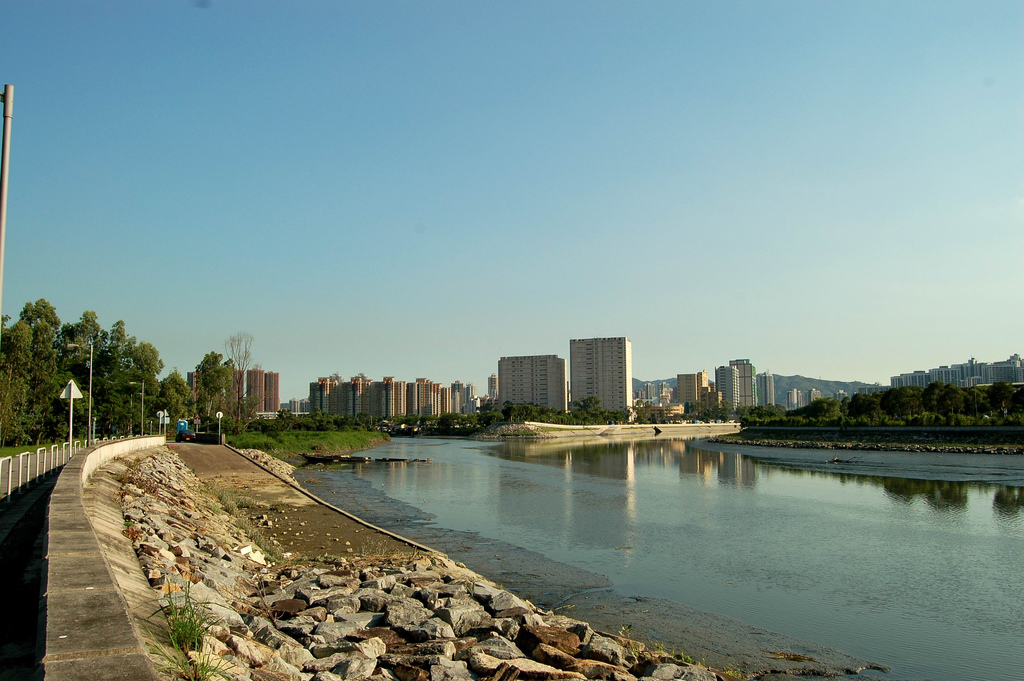 Shan Pui River Yuen Long Industrial Estate Section Picture taken looking south from Nam Sang Wai Road, on the western edge of Nam Sang Wai. The rivers are the confluence of Kam Tin River (left) into Shan Pui River. The piece of land between the 2 arms of the river is the northern edge of Yuen Long Kau Hui. The apartment buildings aligned with the Kam Tin River branch belong the The Parcville. The 2 tall buildings on their right belong to Tung Tau Industrial Area. The area on the right, across the Shan Pui River from Nam Sang Wai, is part of Yuen Long Industrial Estate.